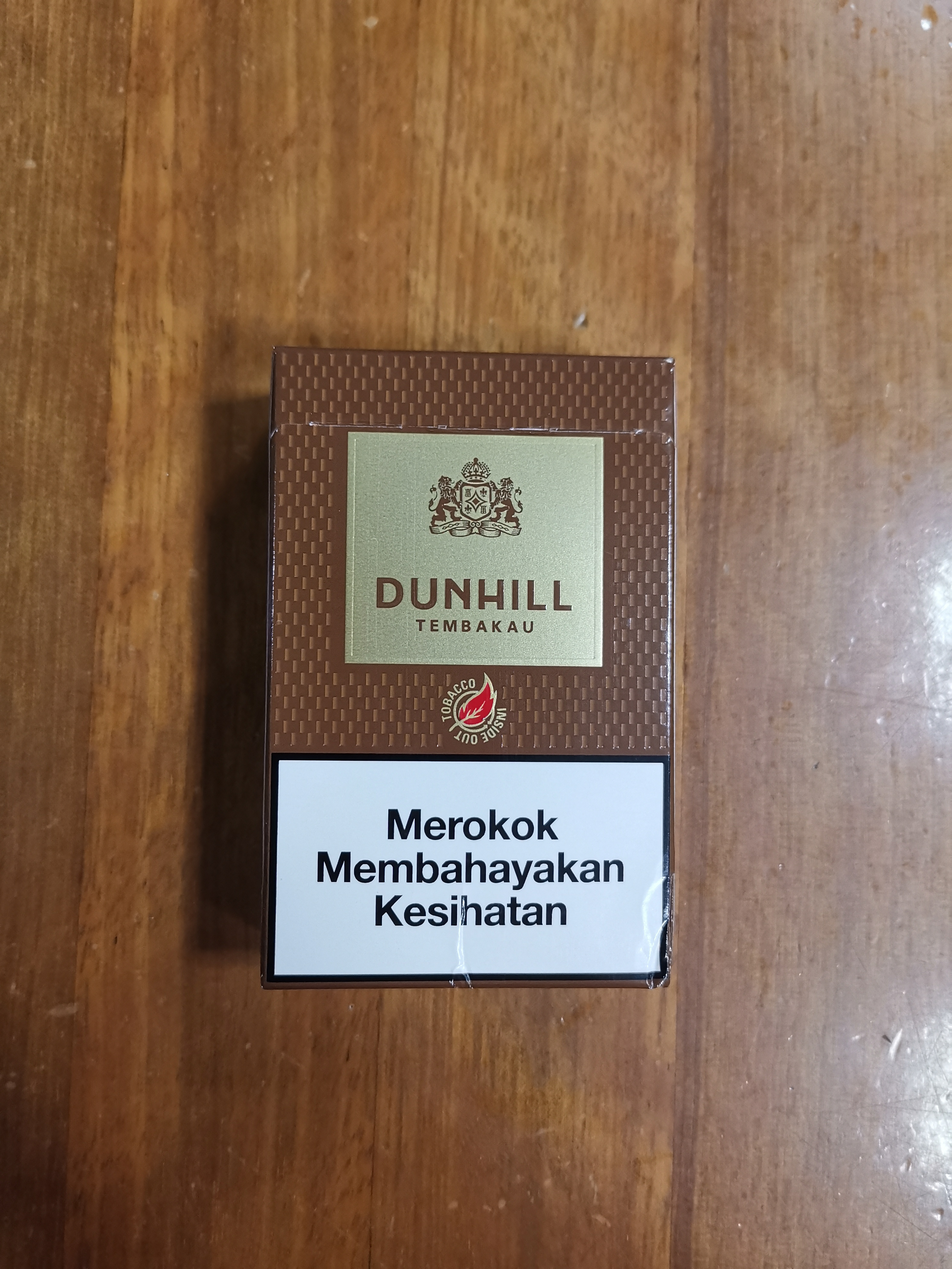 A new pack of Dunhill Tembakau cigarillos